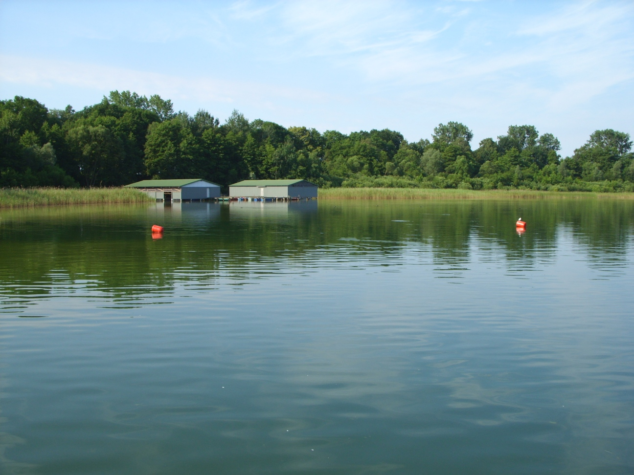 Boat houses at lake Neustädter See in Neustadt-Glewe, district Ludwigslust, Mecklenburg-Vorpommern, Germany